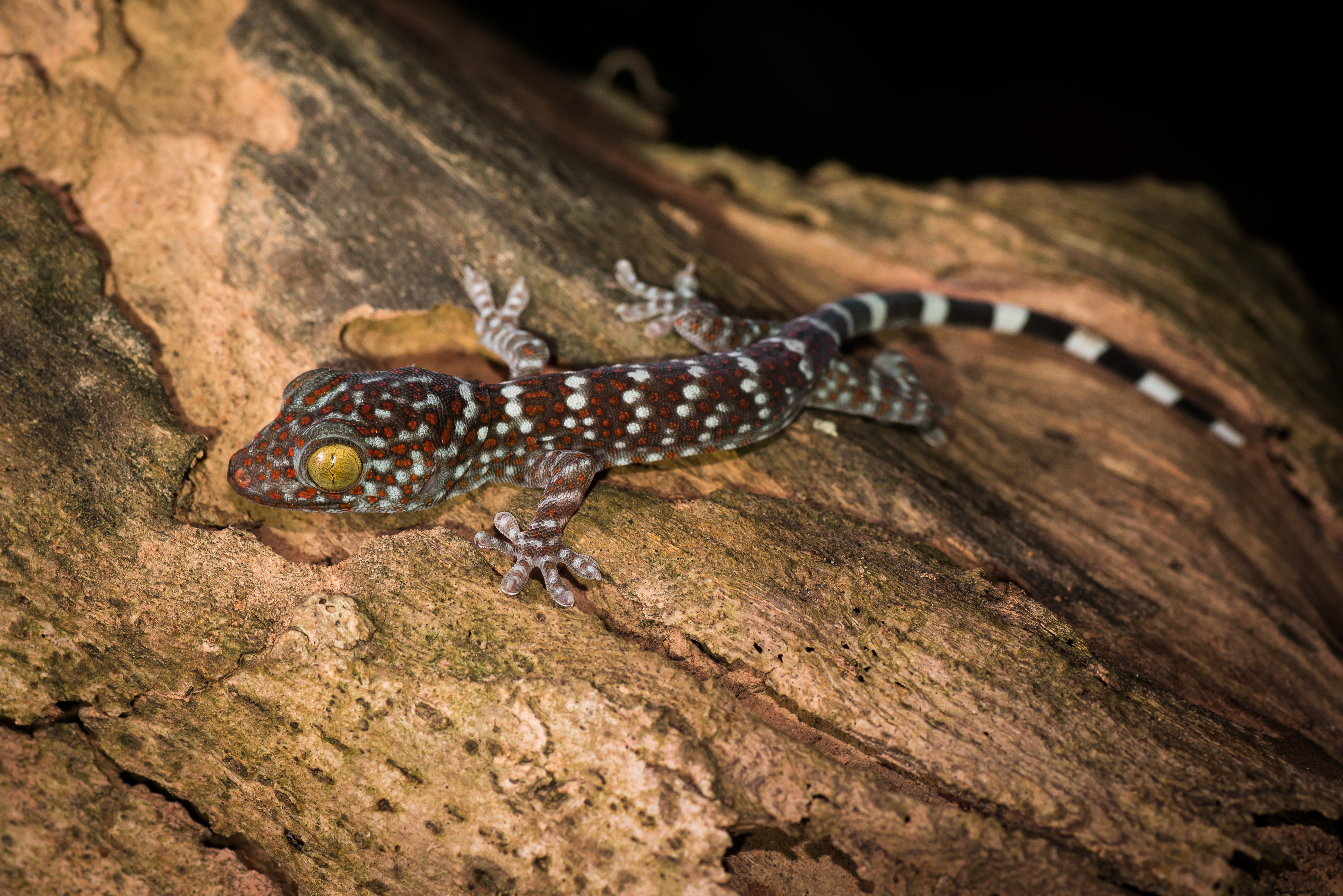 This photo is published under Creative Commons Attribution-Share-Alike Licence, means you are free to use this photo with attribution under same licence. For credits, please use following; Owner: Thai National Parks Link